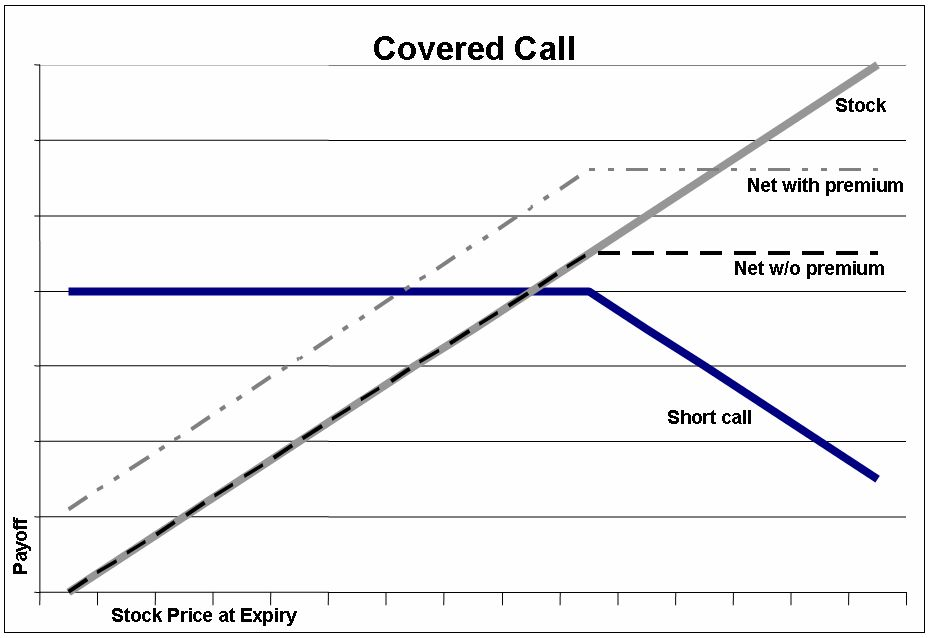 Graph of the profits for a covered call